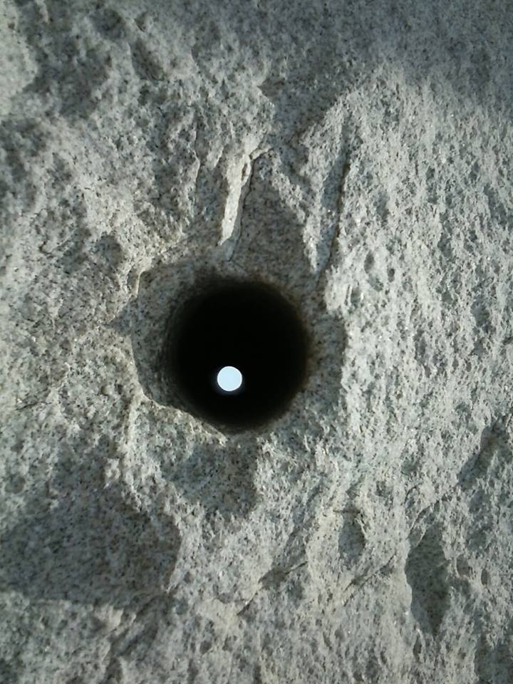 Georgia Guidestones